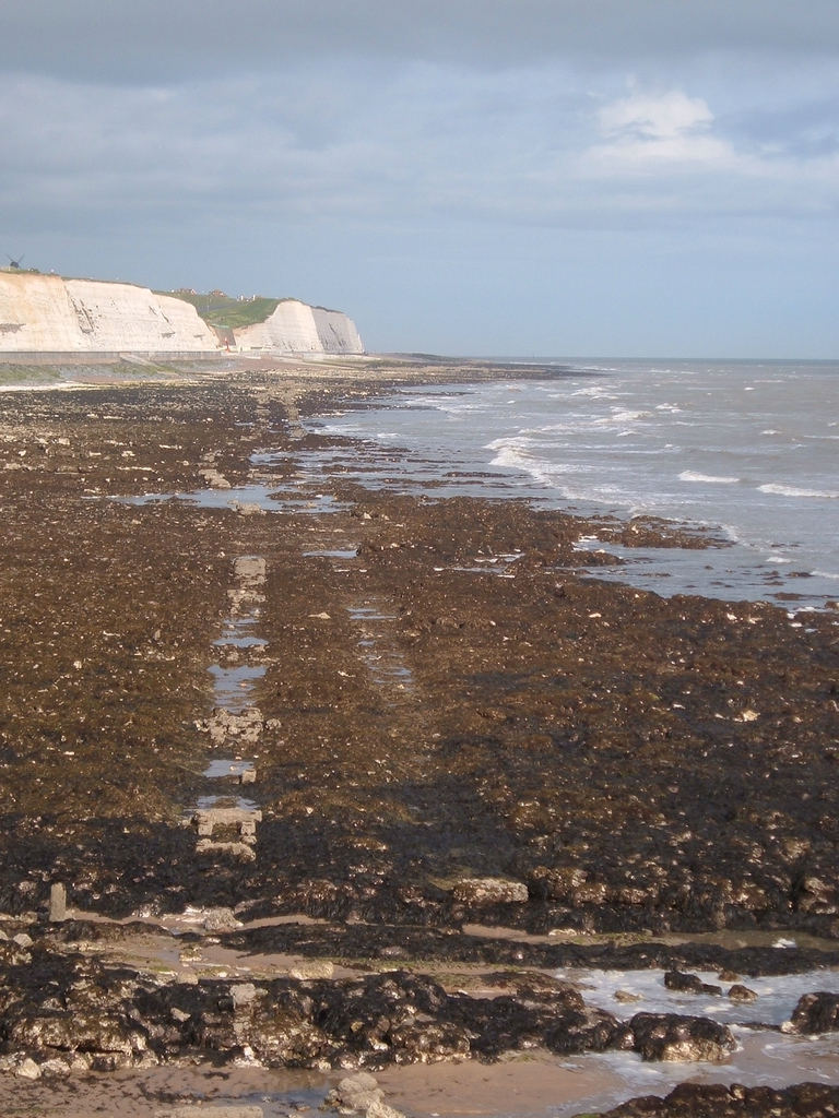 Former course of the Brighton and Rottingdean Seashore Electric Railway (old track of the "Daddy Long Legs")